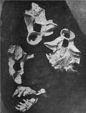 Photograph of the bones of the holotype specimen of Stephanospondylus pugnax from "Uber Stephanospondylus n. g. und Phanerosaurus H. v. Meyer" by R. Stappenbeck (Zeitschrift der Deutschen Geologischen Gesellschaft 57: 380–437).